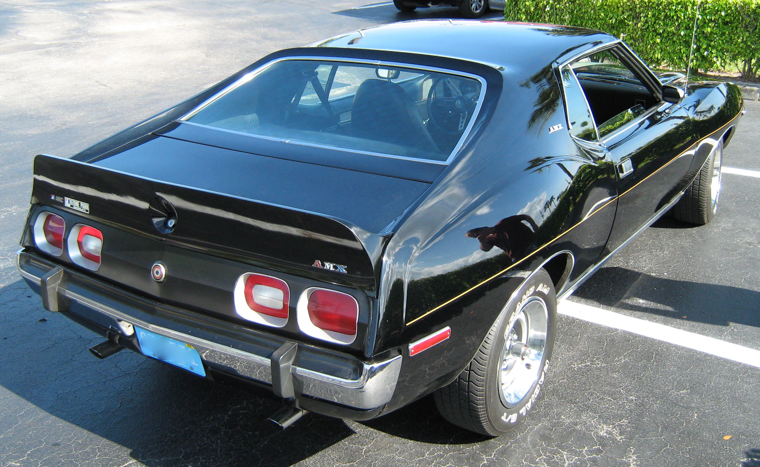 1974 AMC (American Motors Corporation) Javelin AMX - rear view